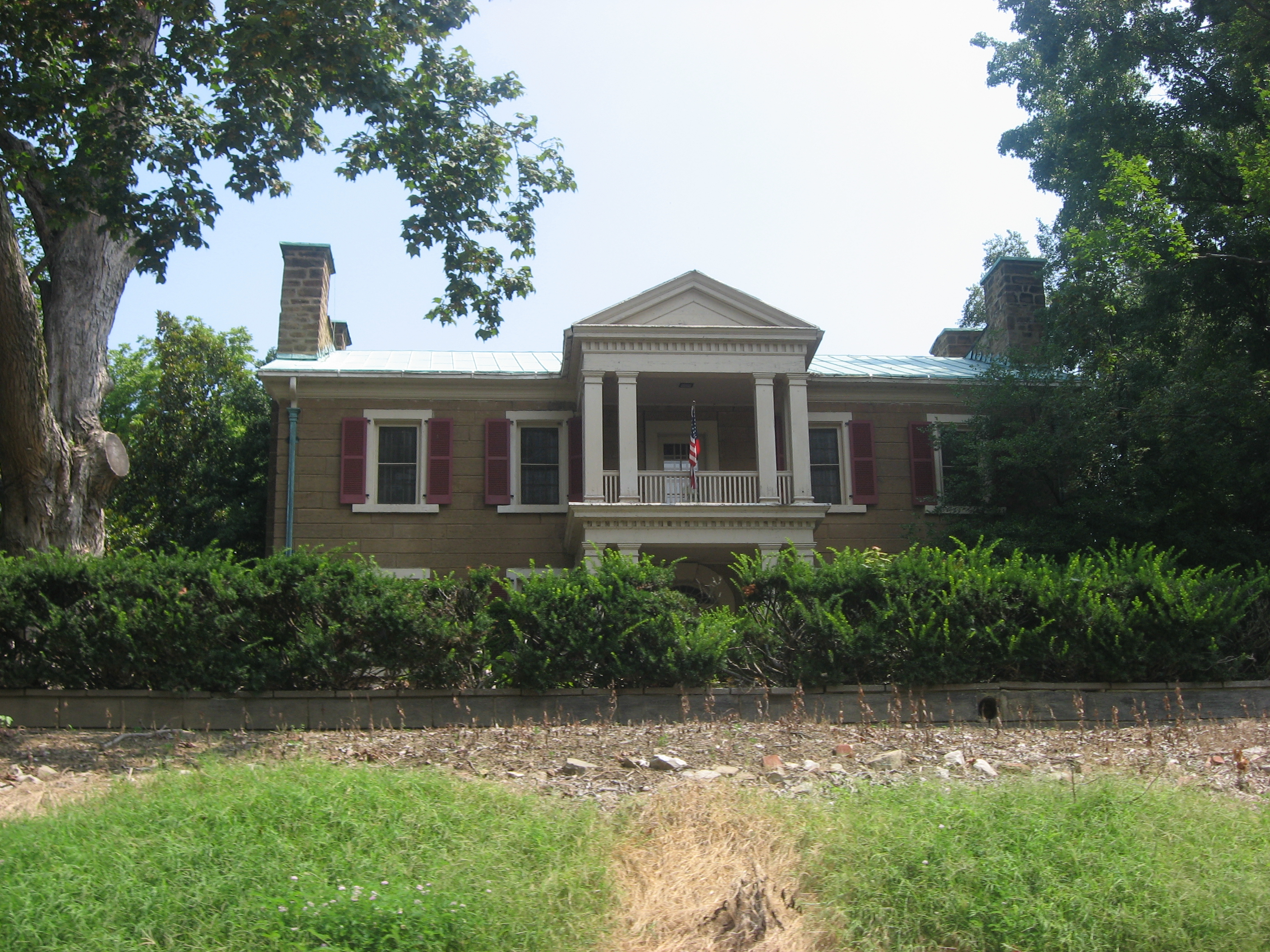 Front of the Roberts-Morton House, located along River Road east of Newburgh in Ohio Township, Warrick County, Indiana, United States. Built in 1833, it is listed on the National Register of Historic Places.